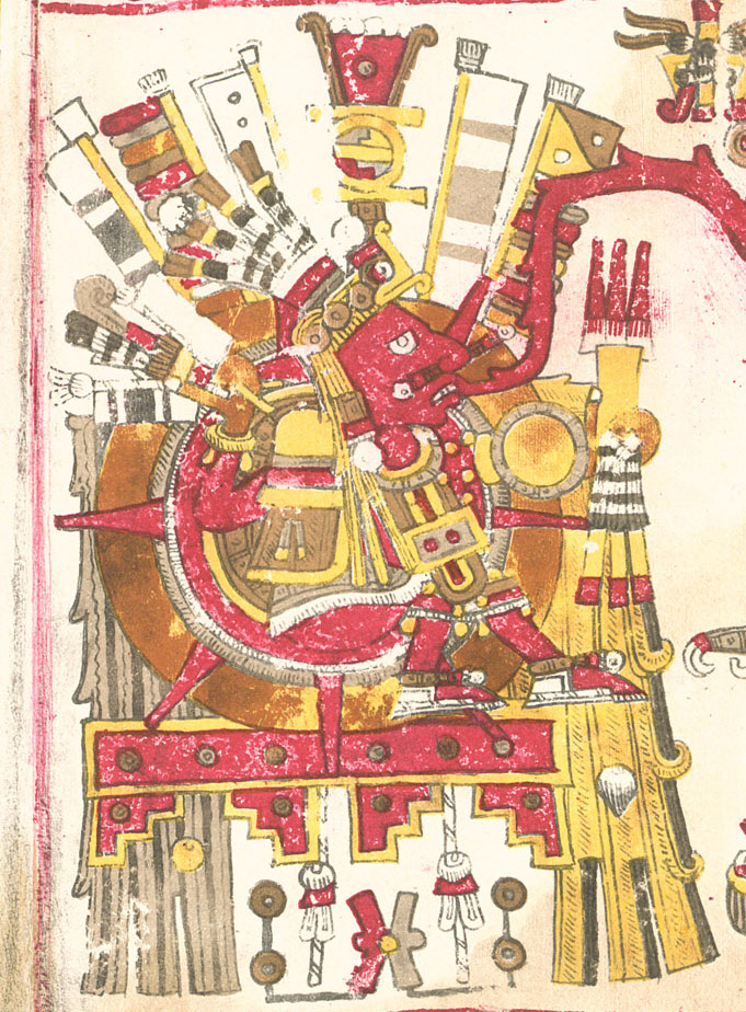 A drawing of Tonatiuh, one of the deities described in the Codex Borgia